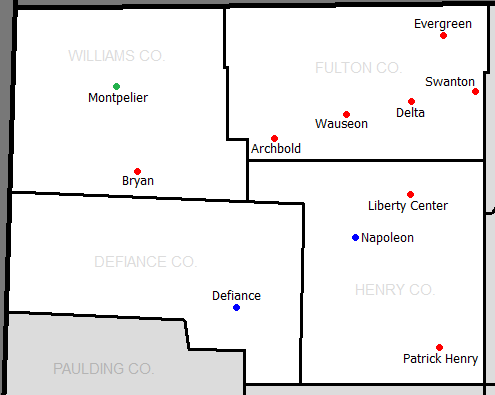 Map showing all-time members of the Northwest Ohio Athletic League